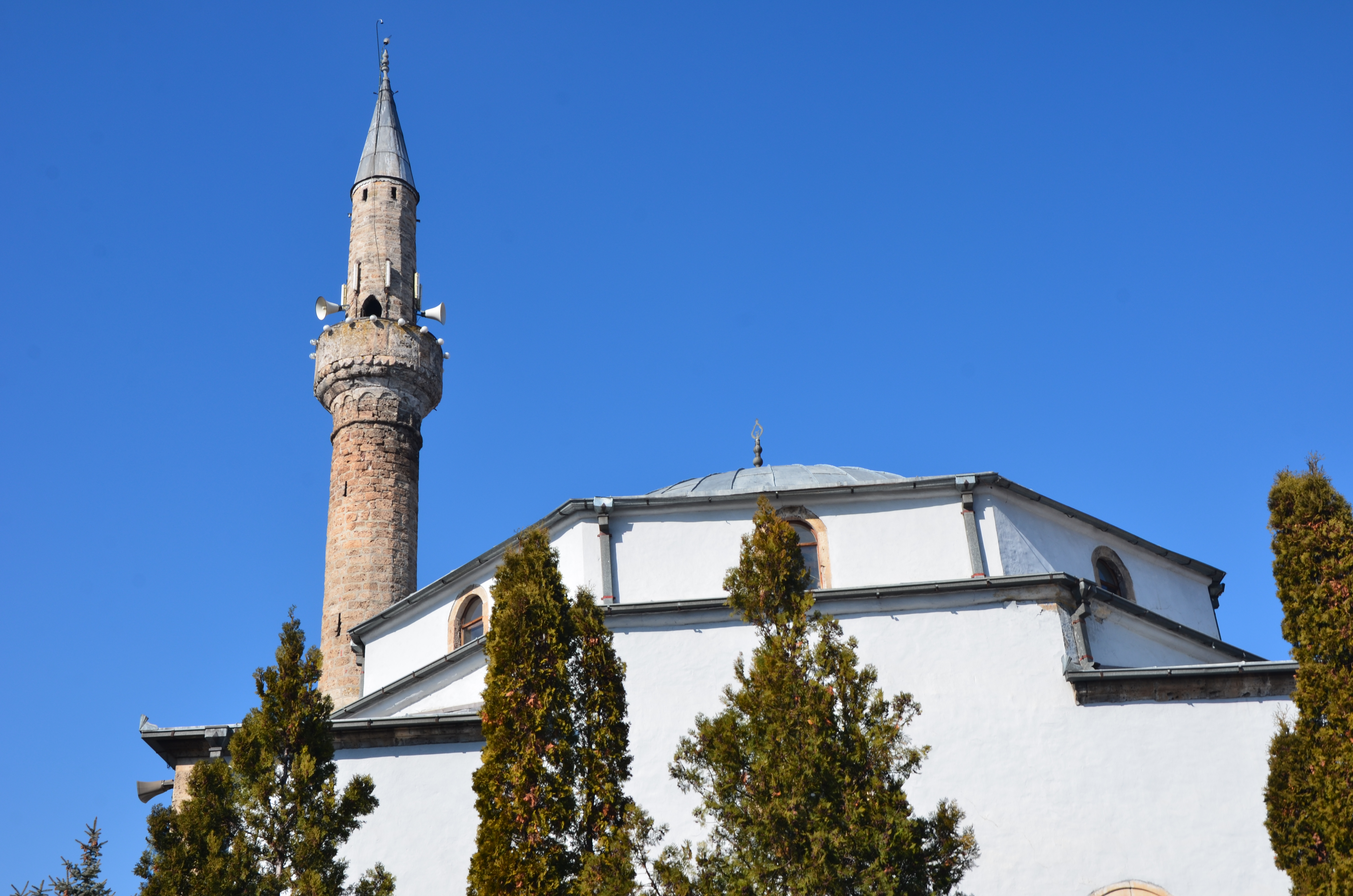 Bajrakli Xhami